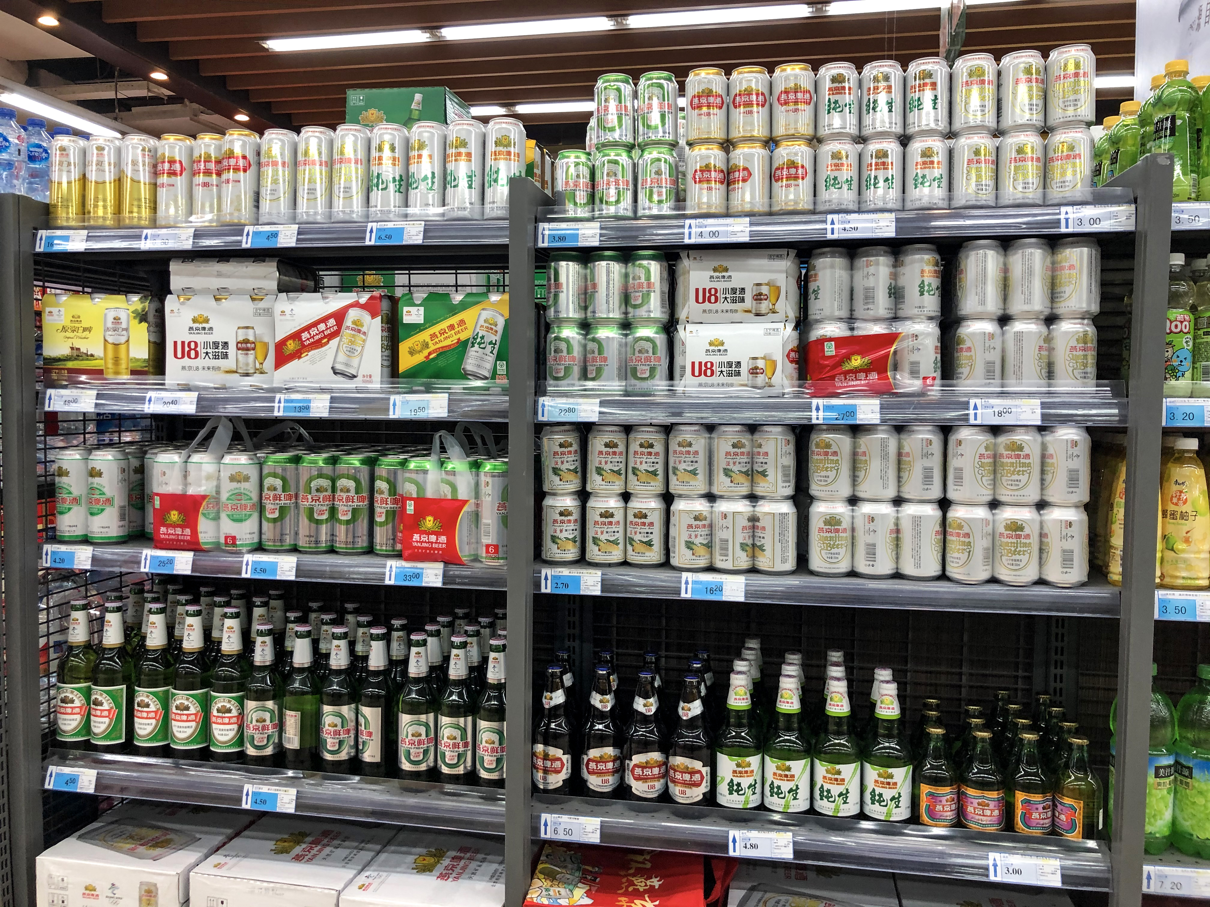 Just returned from Yanjing Brewery... and bought one!